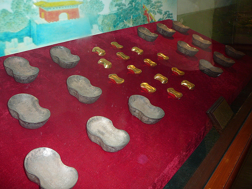 Chinese Gold Ingot (Yuanbao)